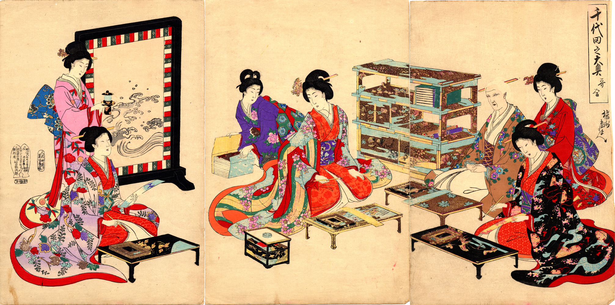 It is The ukiyoe "千代田之大奥 歌合"